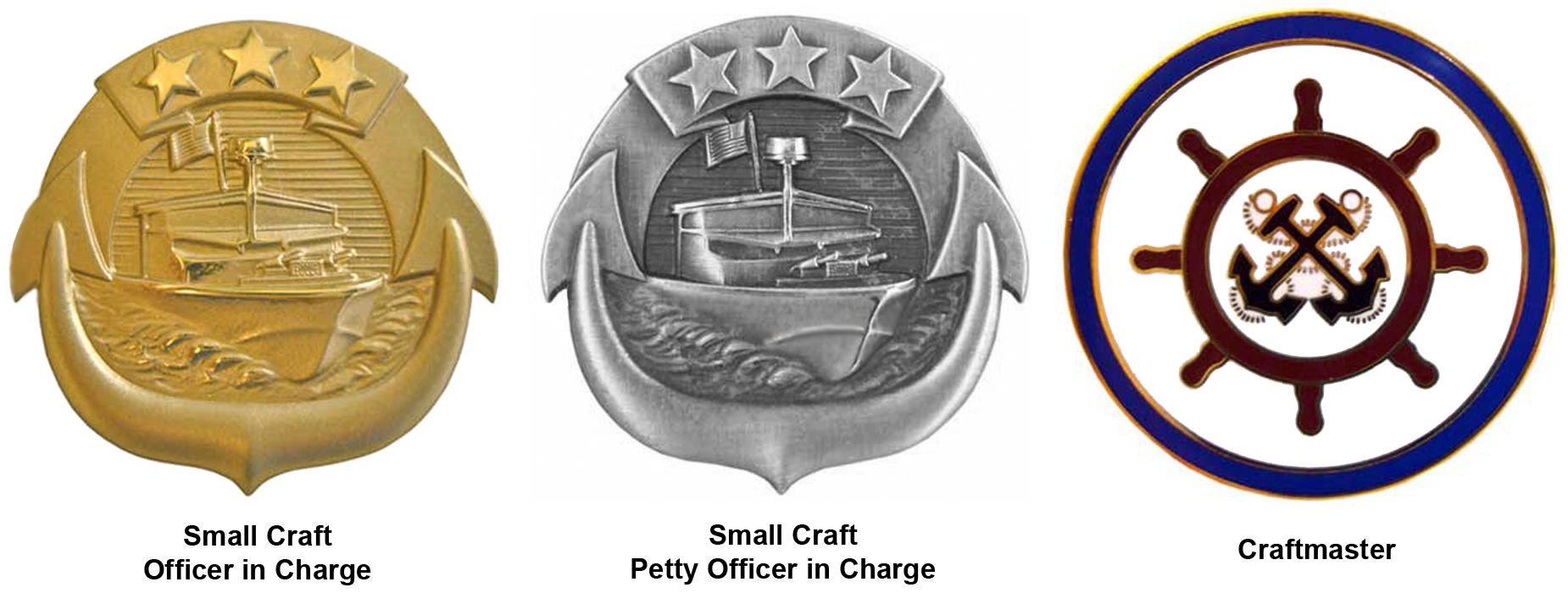 Image of Officer in Charge/Petty Officer in Charge insignia used in the US Navy. For use in USN articles concerning awards.